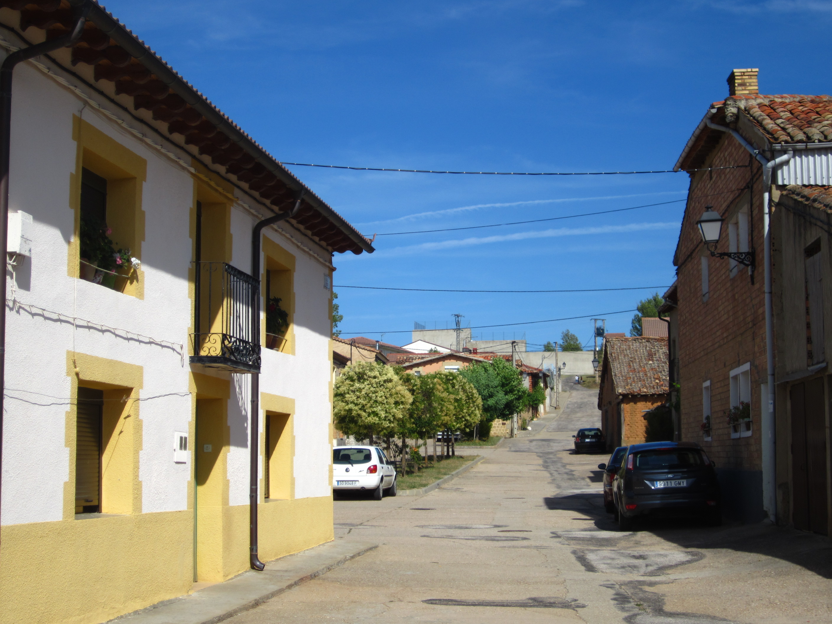 Valdemaluque (Soria). Calle Mayor